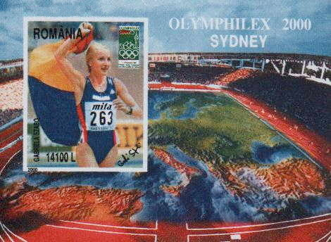 Gabriela Szabo